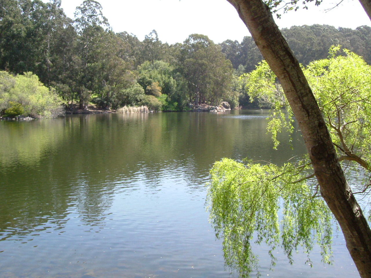 Lake Anza at Tilden Regional Park, Berkeley Hills, California. Author: fizbin Source: fizbin's camera